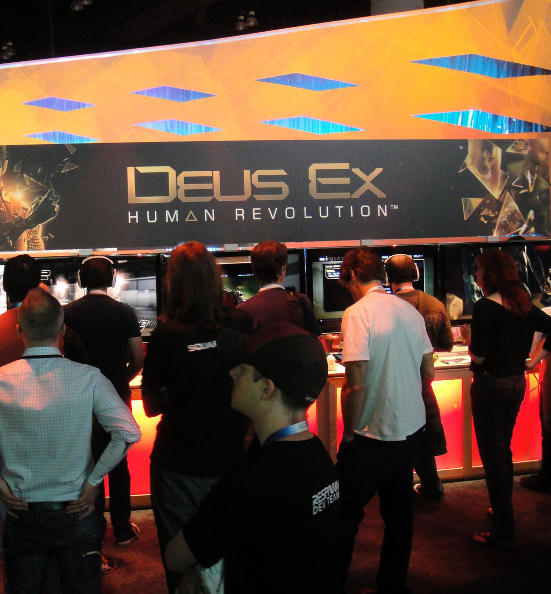 Presentation of Deus Ex; Human Revolution at the Square Enix booth, E3 2011. Photo taken by Doug Kline /